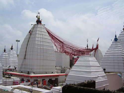 Baba Dham, Deoghar, Jharkhand